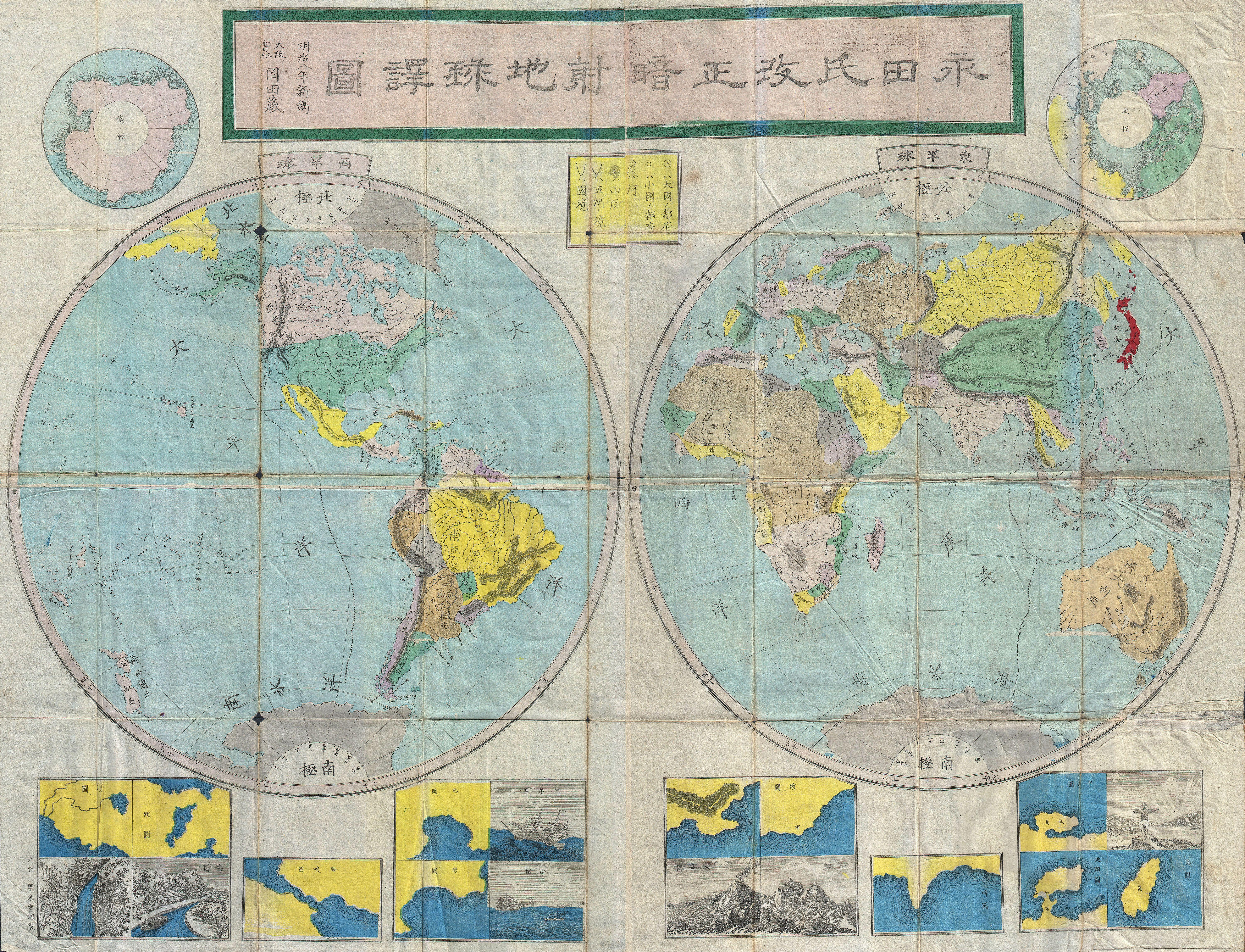 An exceedingly rare find. This is a Japanese map of the world dated to the 8th year of the Emperor’s Meiji’s reign, or 1897. Depicts the entire world on a hemisphere projection with smaller polar projections in the upper left and right quadrants. The national boundaries and geography in general is vague, as is common to Japanese maps of this period. Color coded according to region with Japan itself in bright red. Several harbor plans and views adorn the bottom portions of the map. All text in Japanese. Folds into its original boards.